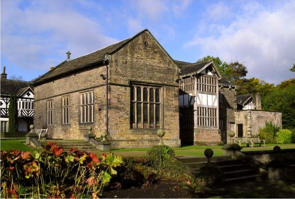 Smithills Hall A view across the lawn towards the old hall